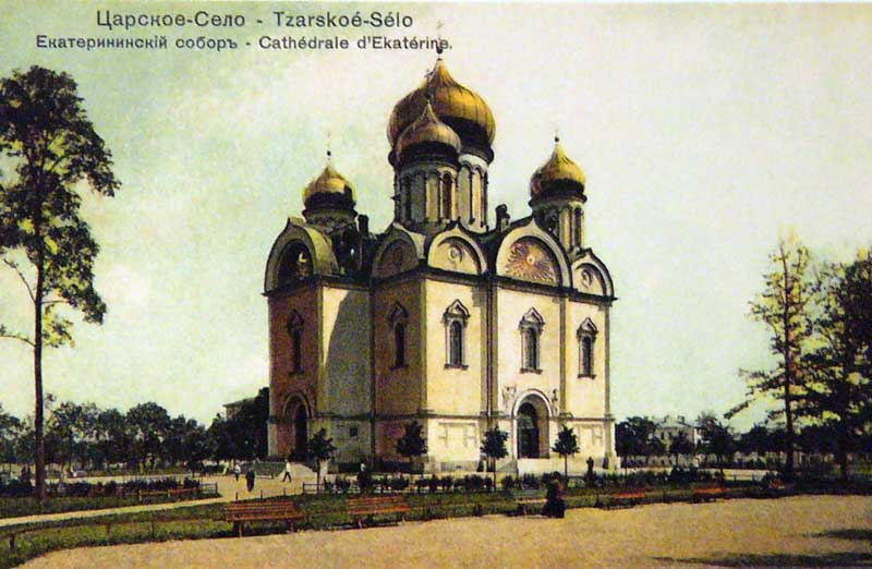 Tsarskoye Selo (Russia), Catherine cathedral.